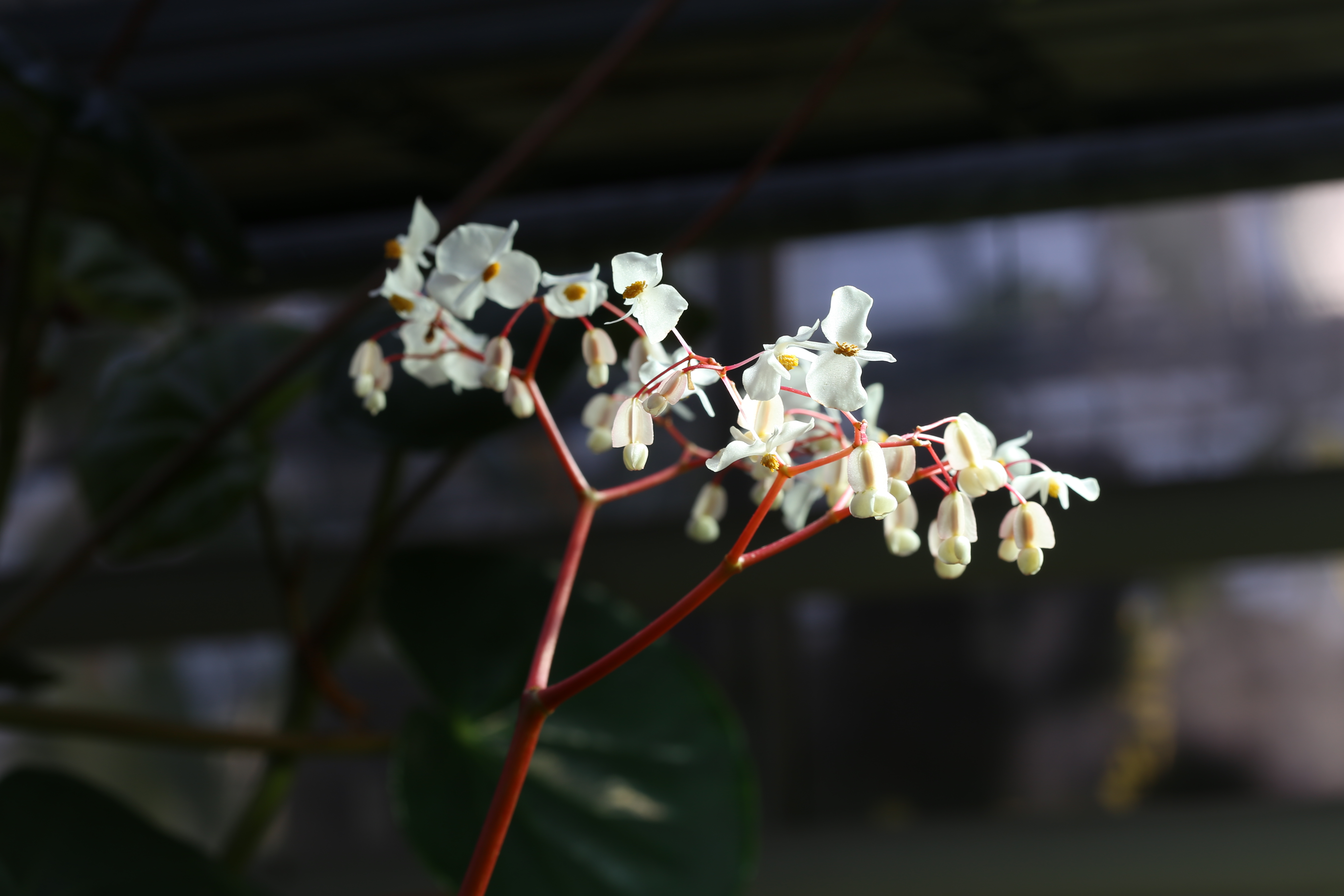 Begonia inciso-serrata at Gothenburg Botanical Garden 2015. Plant id: 2011-1273 s G -- Nancy